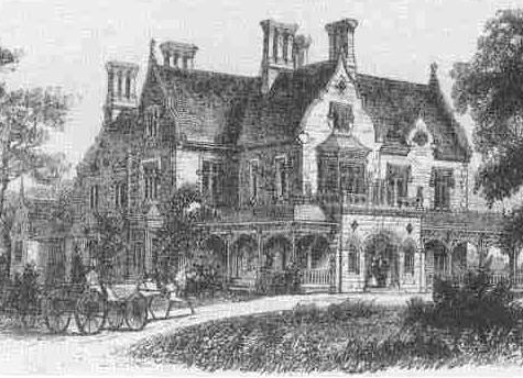 Rendering of main house planned but never built in 1860s at Springside, Poughkeepsie, NY, USA estate of Matthew Vassar, designed by Andrew Jackson Downing and Calvert Vaux